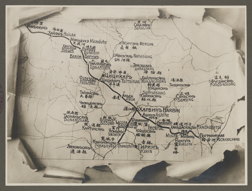 Title: [Chinese Eastern Railway: Map of the Railroad from Manchuria to Pogranichnaya] Place: People's Republic of China; Russian Federation Part Of: Views of the Chinese Eastern Railway Description: This photograph is part of an album, Views of the Chinese Eastern Railway, which contains 42 photographic prints. The Chinese Eastern Railway is the Trans-Manchurian line of the Trans-Siberian Railway that runs from the Transbaikal region to Vladivostok. Physical Description: 1 photographic print: gelatin silver, part of 1 volume (42 gelatin silver prints); 21 x 27 cm on 27 x 38 cm File: ag1987_0662x_42_opt.jpg Rights: Please cite Southern Methodist University, Central University Libraries, DeGolyer Library when using this image file. A high-quality version of this file may be obtained for a fee by contacting . For more information, View the full album: View the Europe, India, and Asia: Photographs, Manuscripts, and Imprints